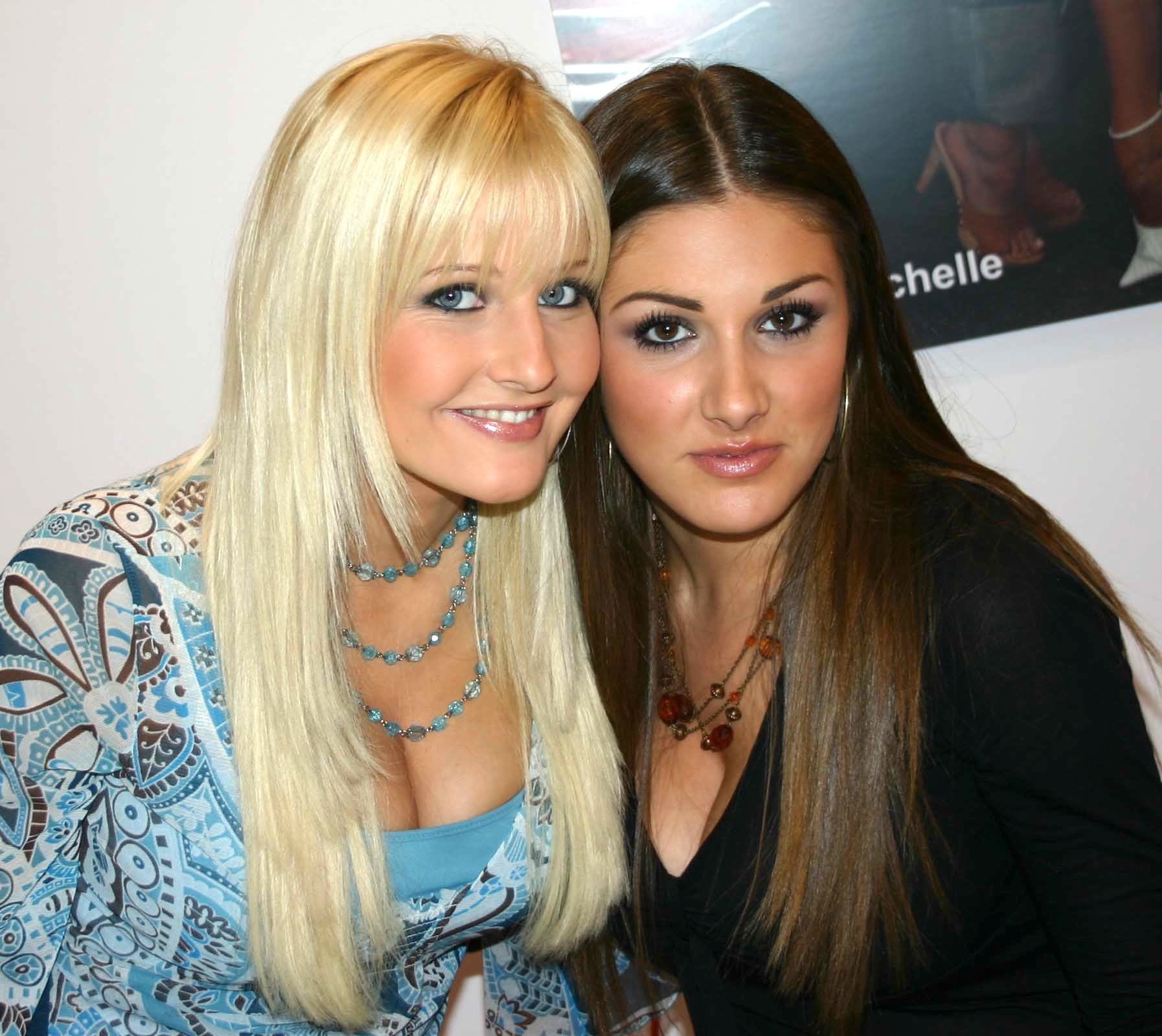 English glamour models Michelle Marsh and Lucy Pinder, at Autosport International auto show, January 10, 2004, N.E.C., Birmingham, UK.